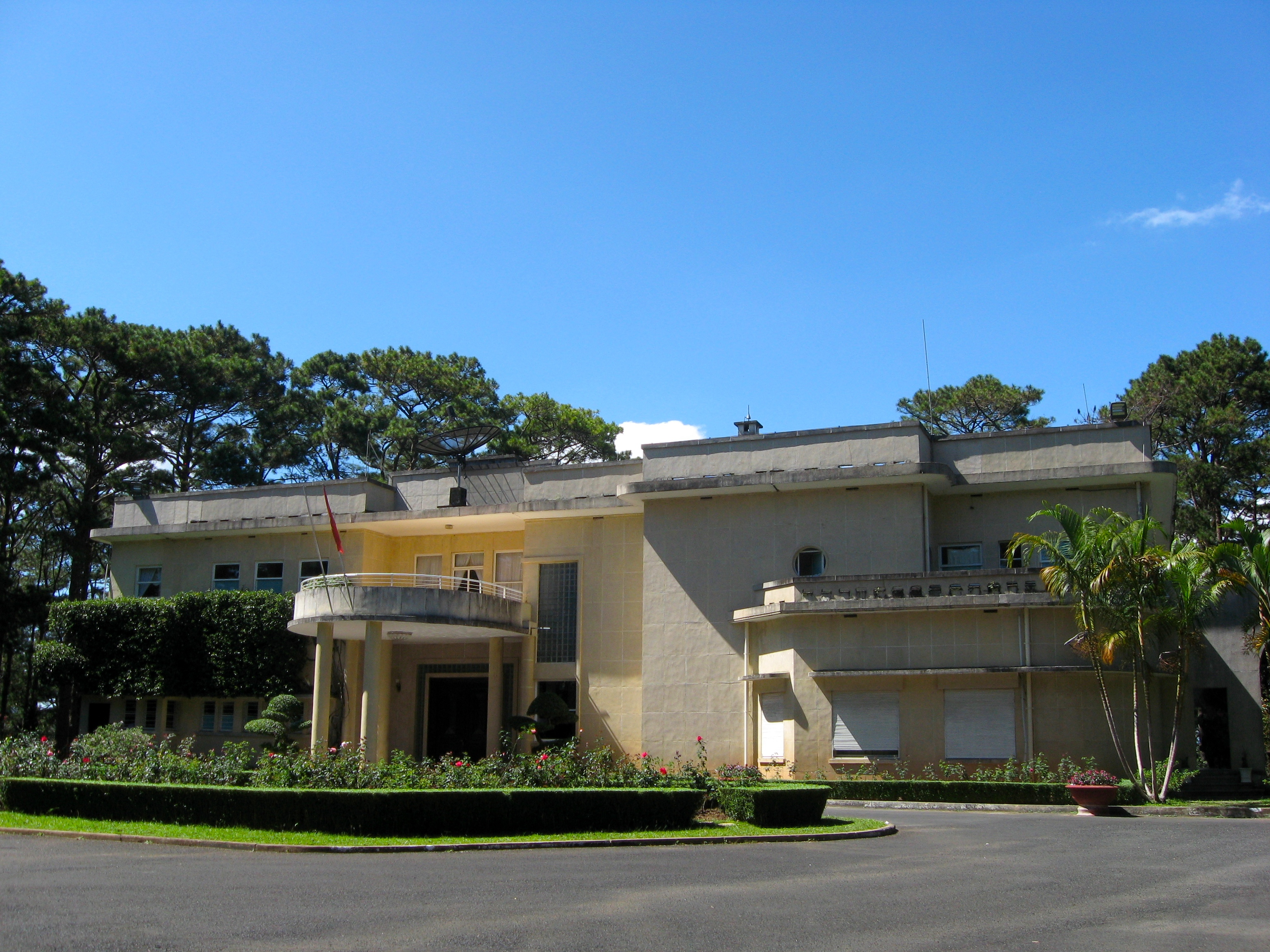 Palace II, Da Lat